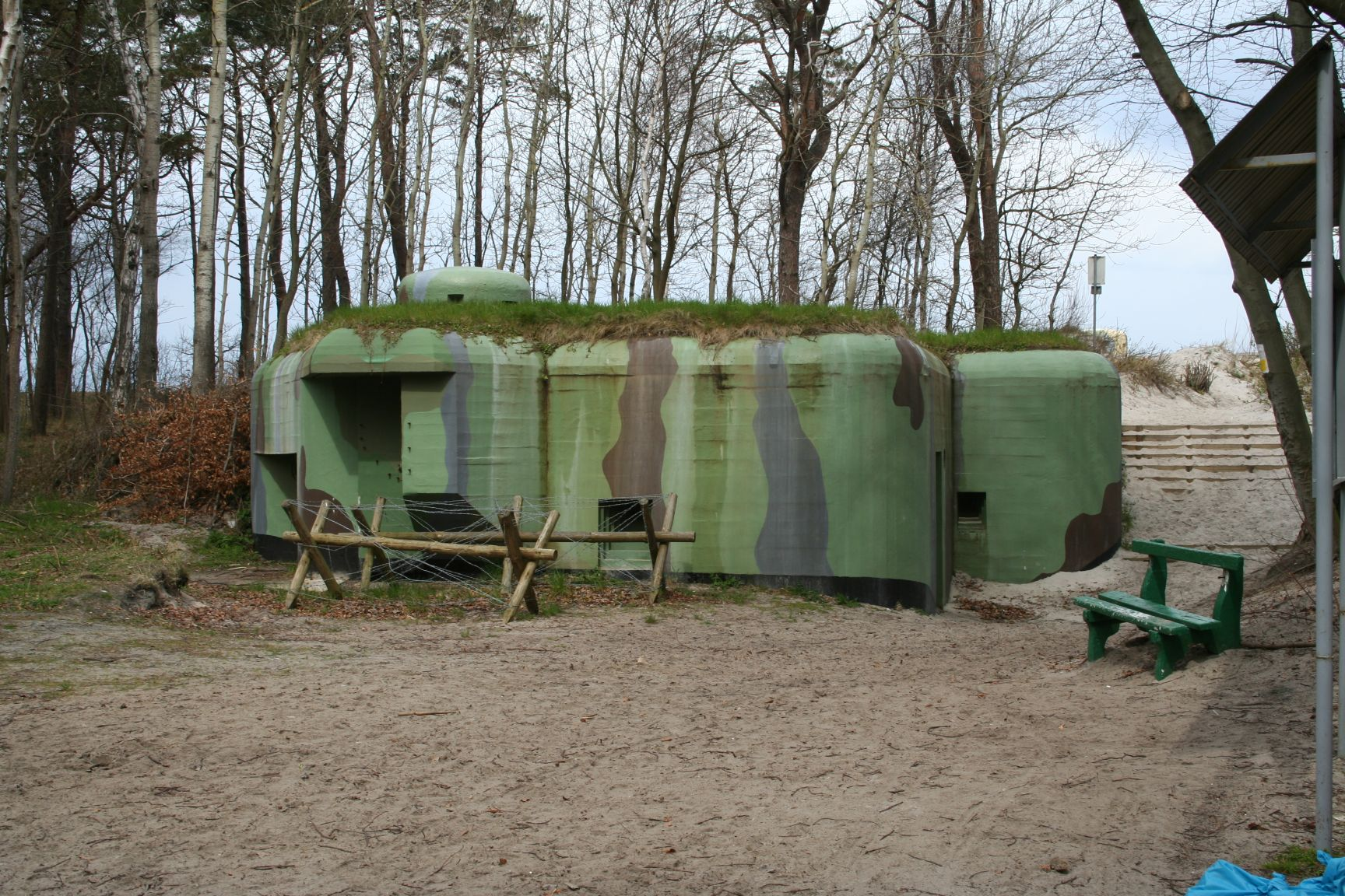 Schron Saragossa, Jastarnia [1]